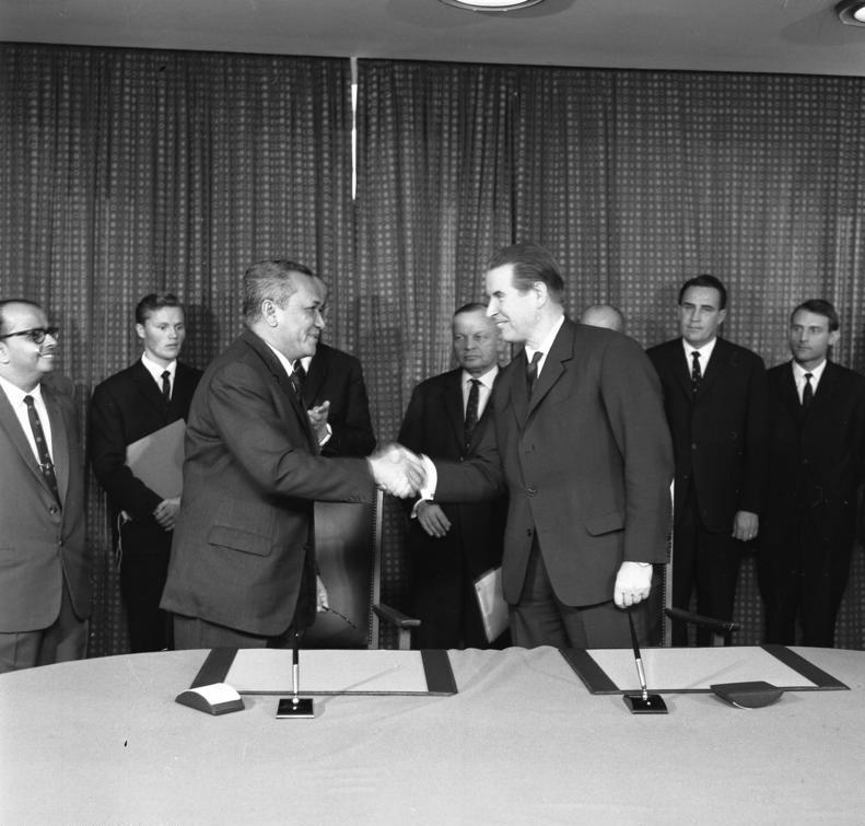 Signing of a capital assistance agreement BRD - Malaysia (At the front from left to right: The Malaysian Ambassador Dato Abdul Hamid bin Haji Jumat and Federal Foreign Minister Dr. Schröder at the German Foreign Office) Bonn